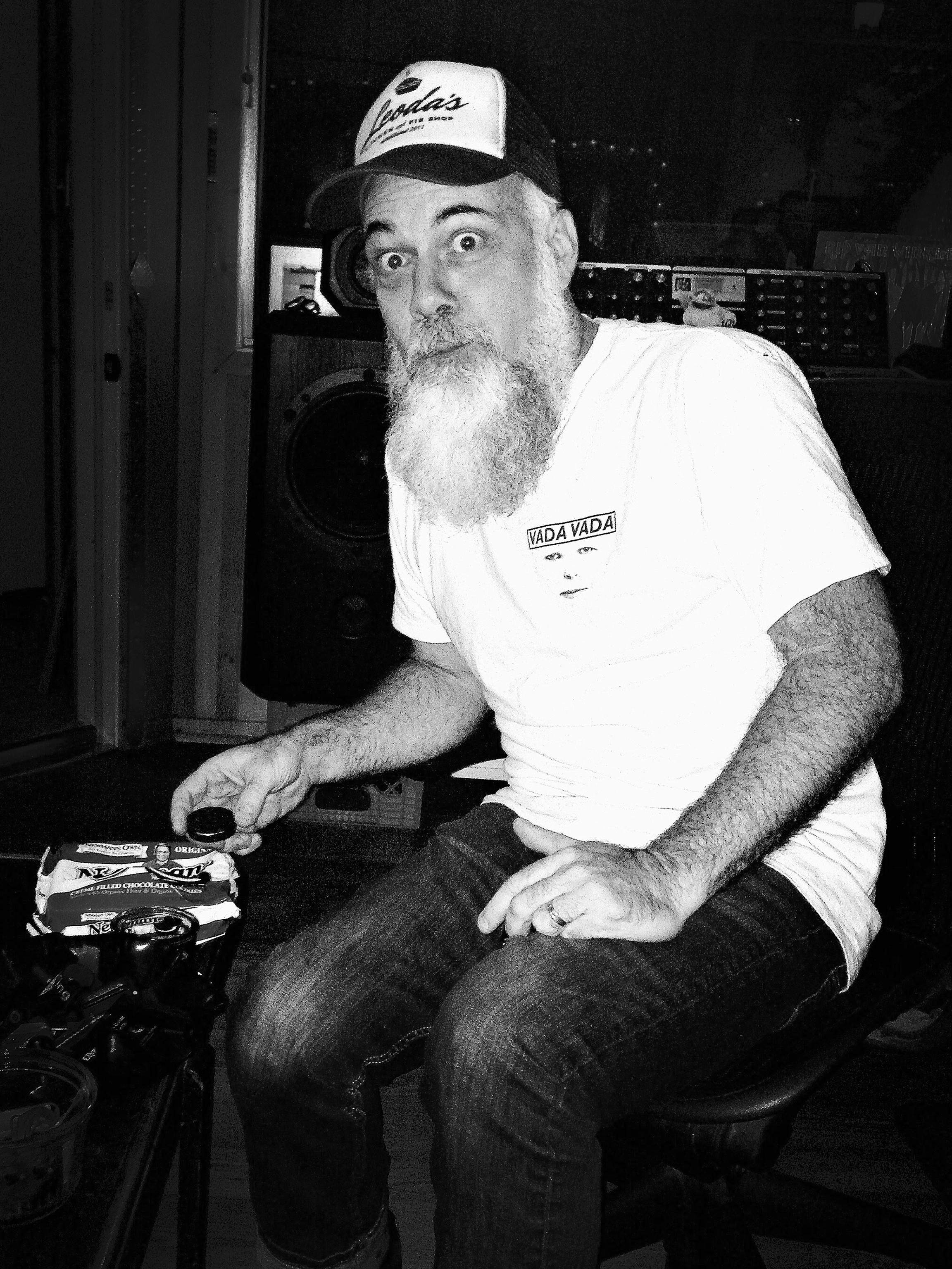 Rob Schnapf